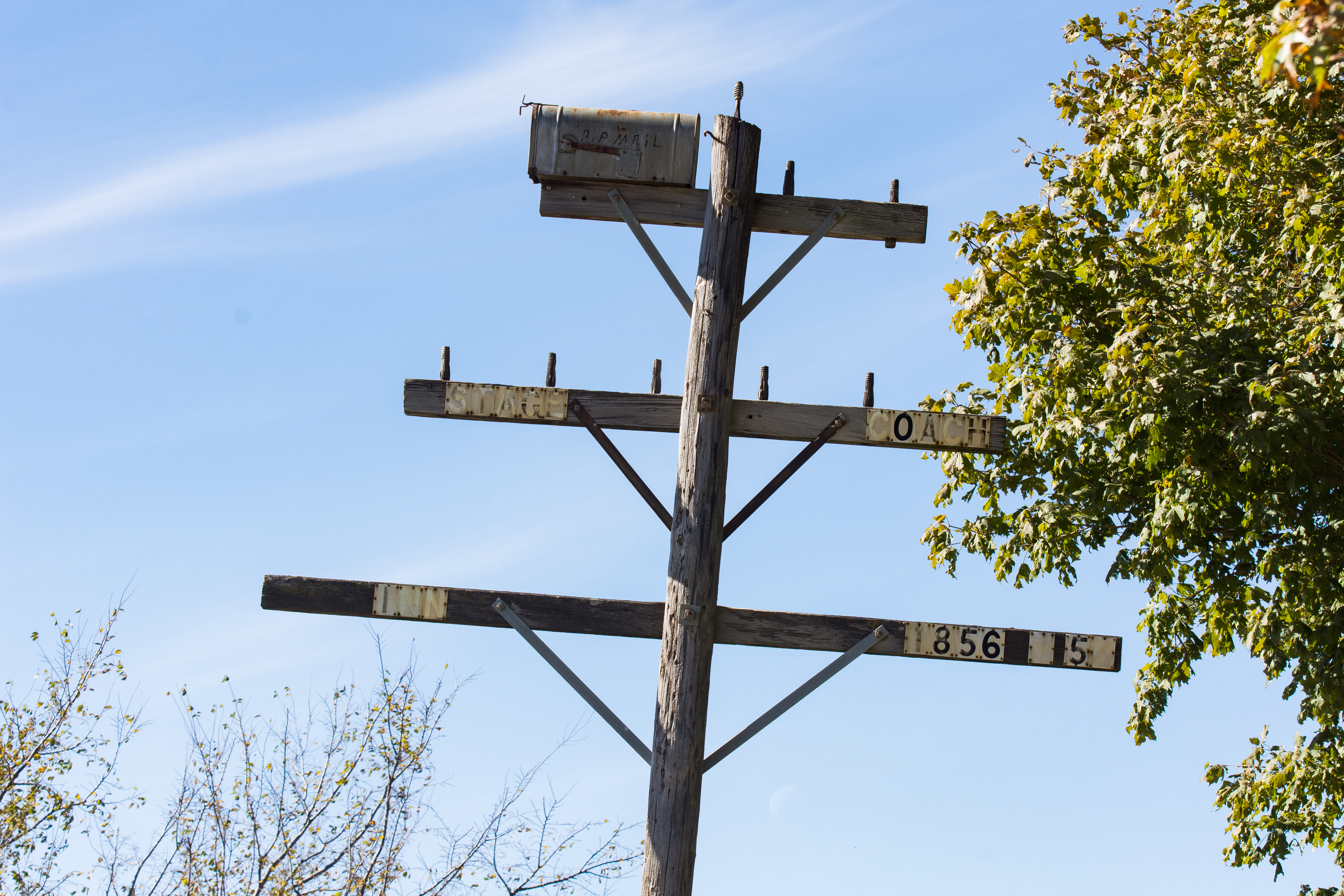 Signage on the pole reads: "STAGE COACH INN 1856 - 57" One of the few remaining structures at the site of the Noah Odell House near Nodaway, Iowa.